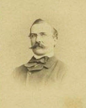 Johann Georg Haag-Rutenberg (1830-1879) - German entomologist specialising in Coleoptera